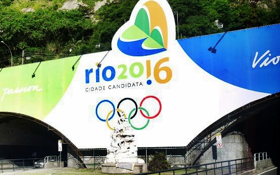 The tunnel to Copacabana is part of the look of the bid scattered around the city.